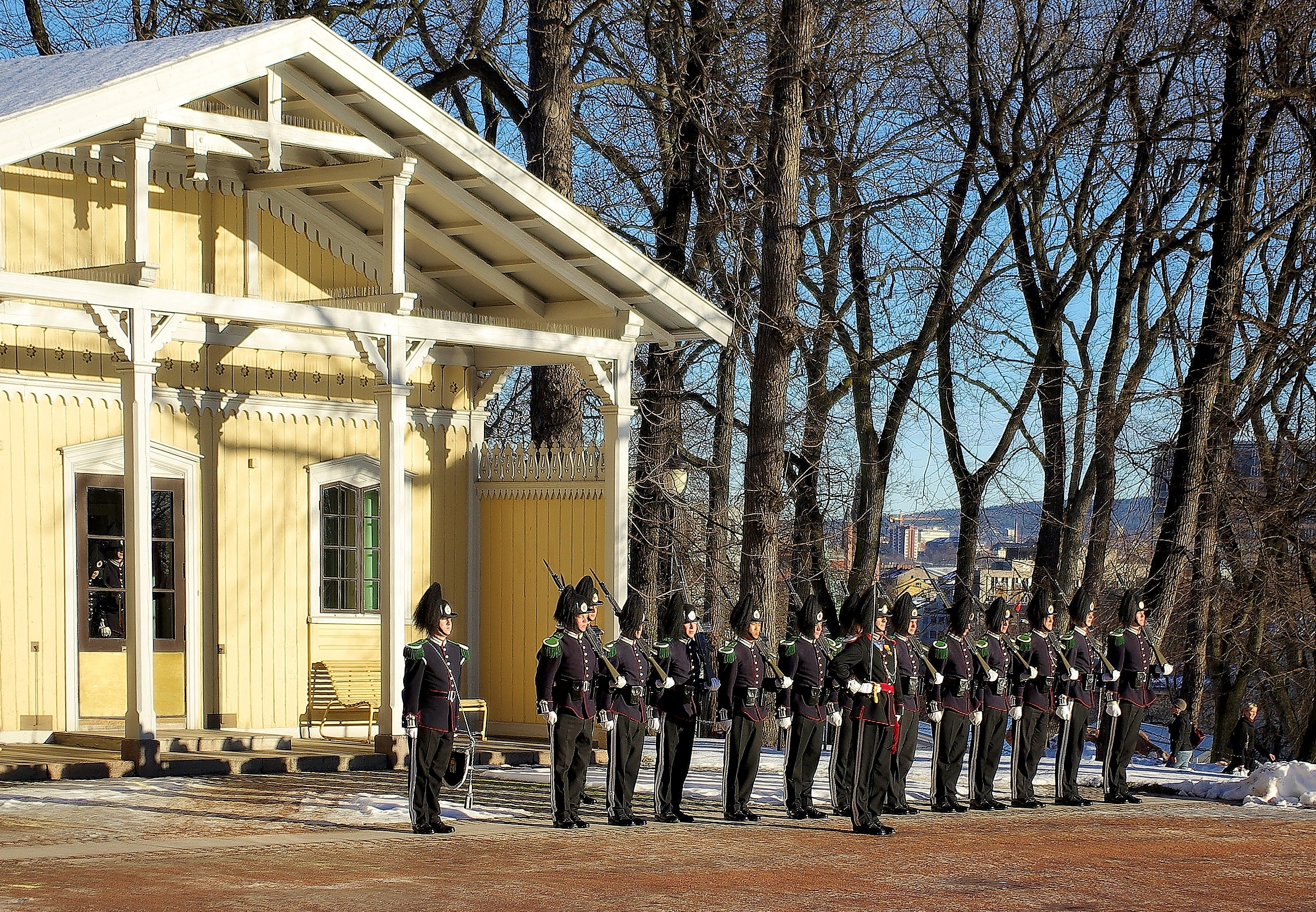 Shift of guards by the Royal Castle in Oslo, King's Castle, Oslo, Norway.